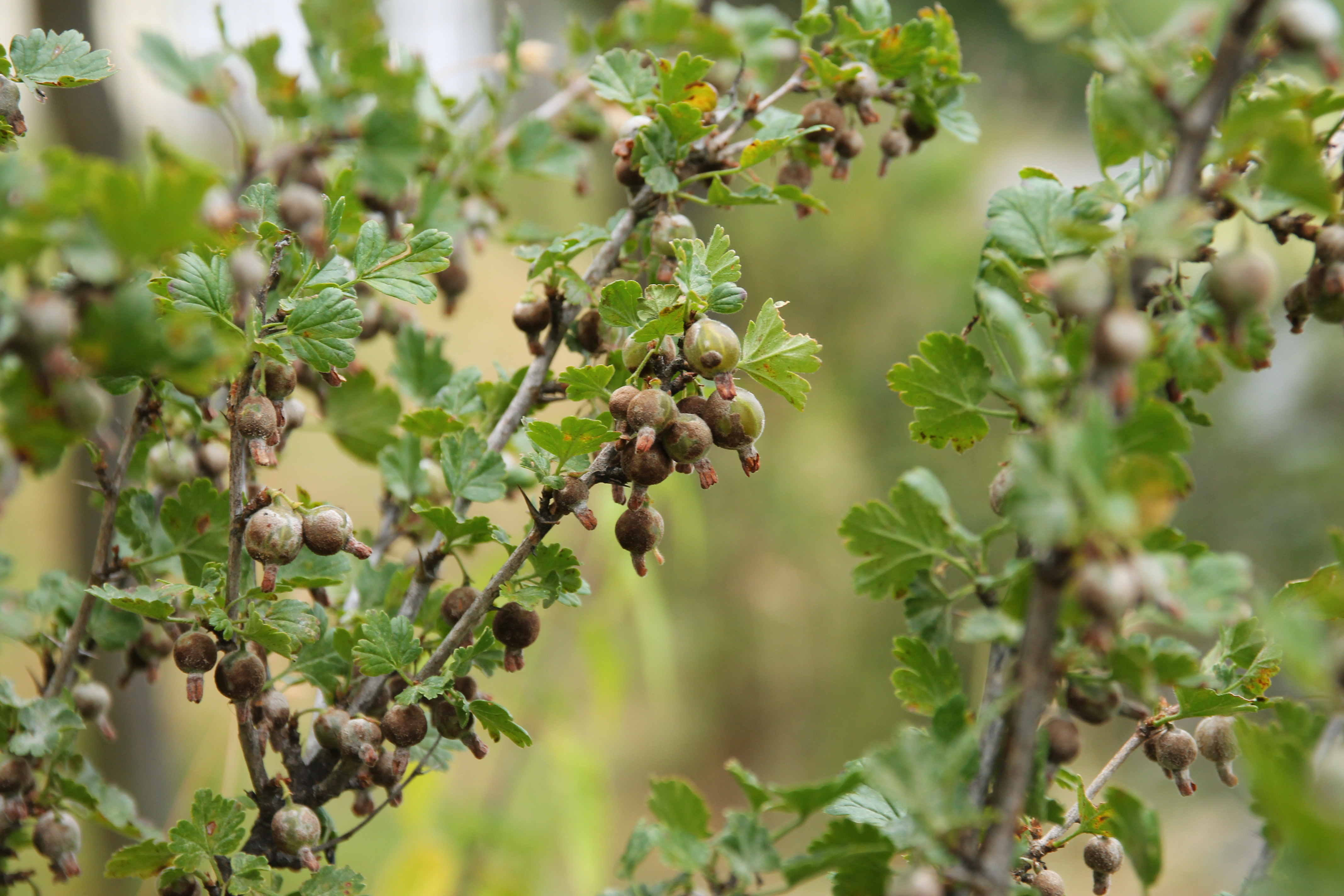 Podosphaera mors-uvae on gooseberry plant